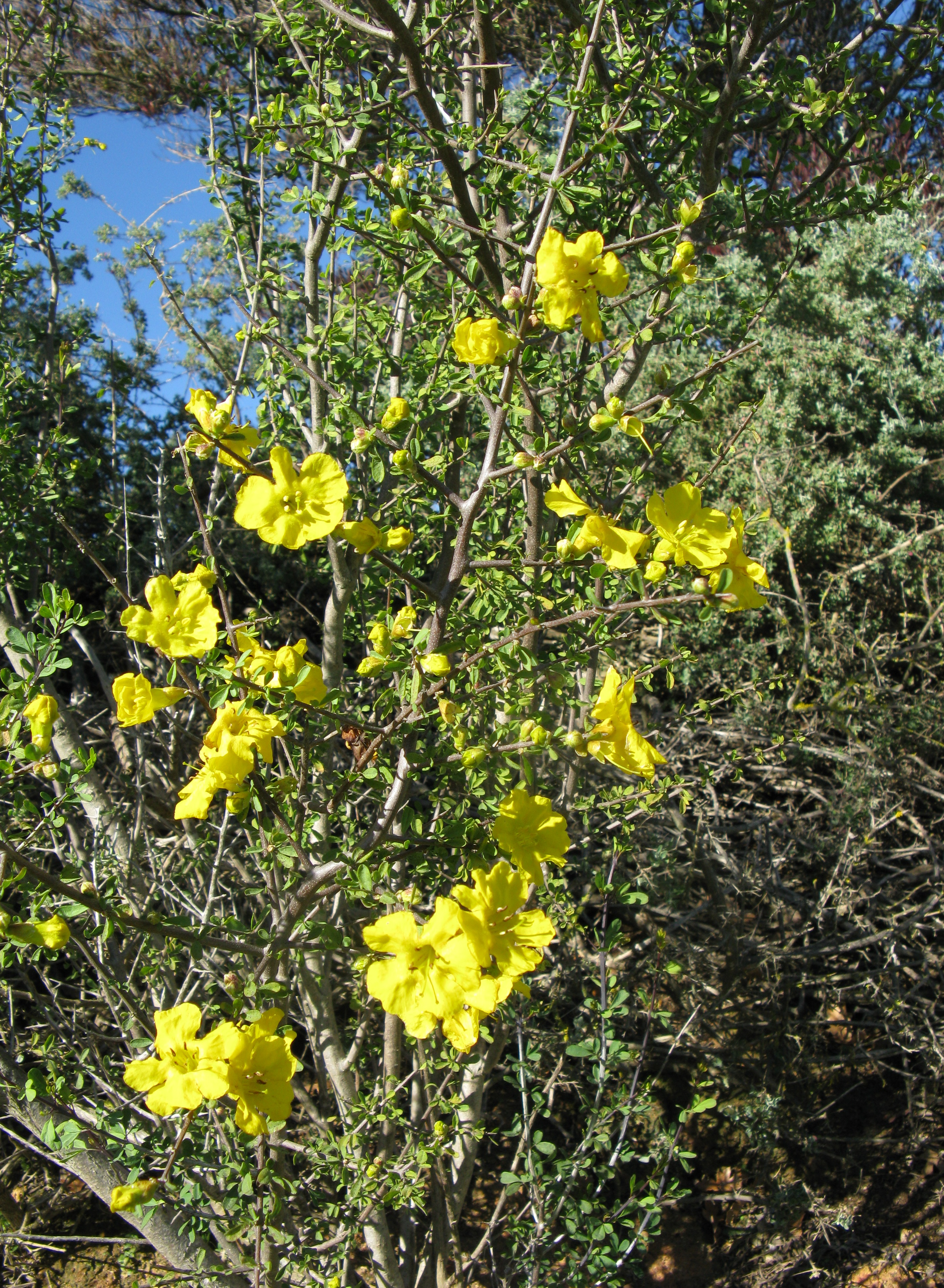 A typical Rhigozum obovatum bush on a dry hillside in South Africa. The habit is open, woody, sparsely leaved, seldom much over 2 metres high. This intensity of flowering is fairly typical.